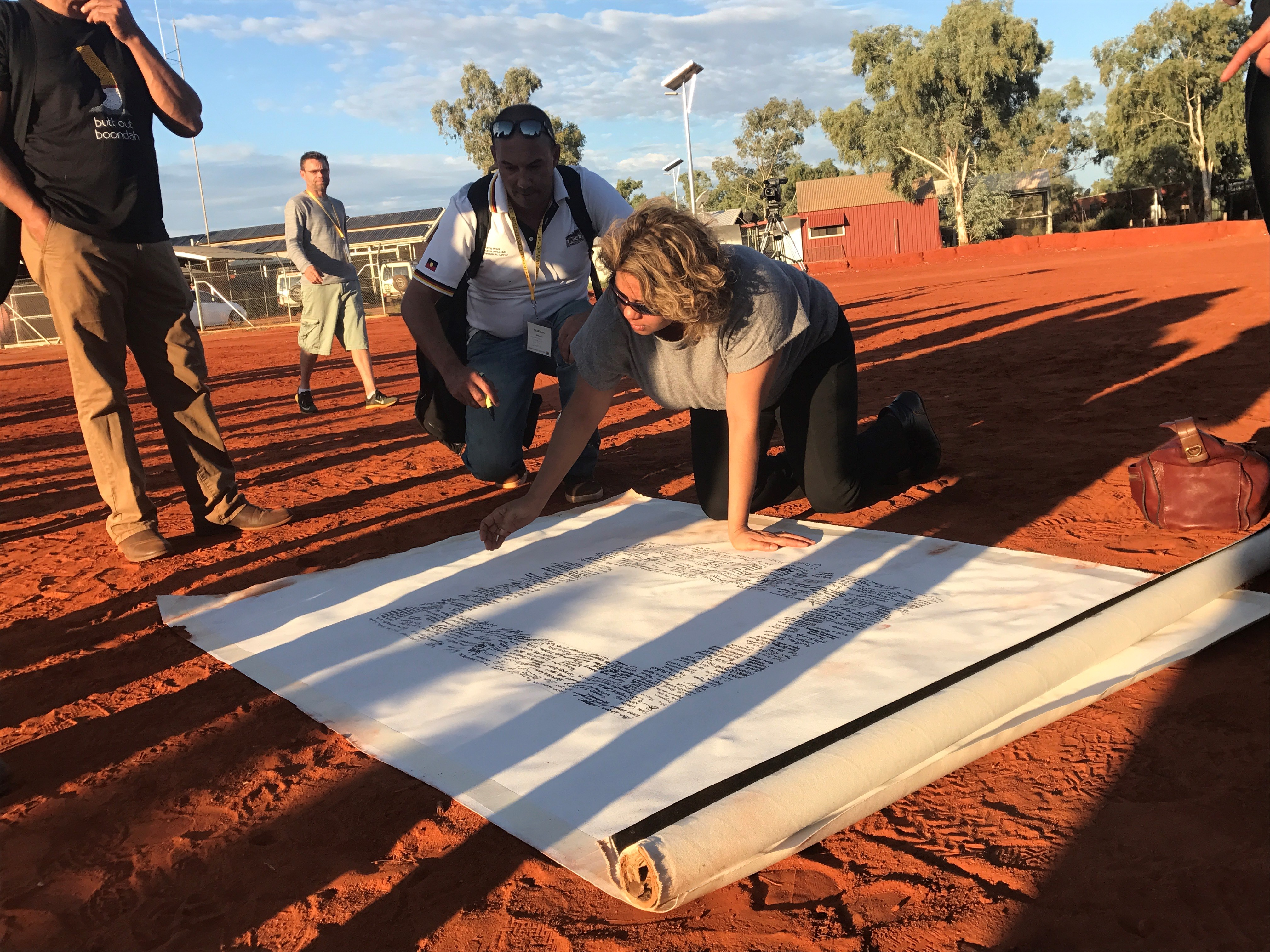 Denise Bowden, CEO of Yothu Yindi, signing the Uluru Statement from the Heart, in Central Australia.